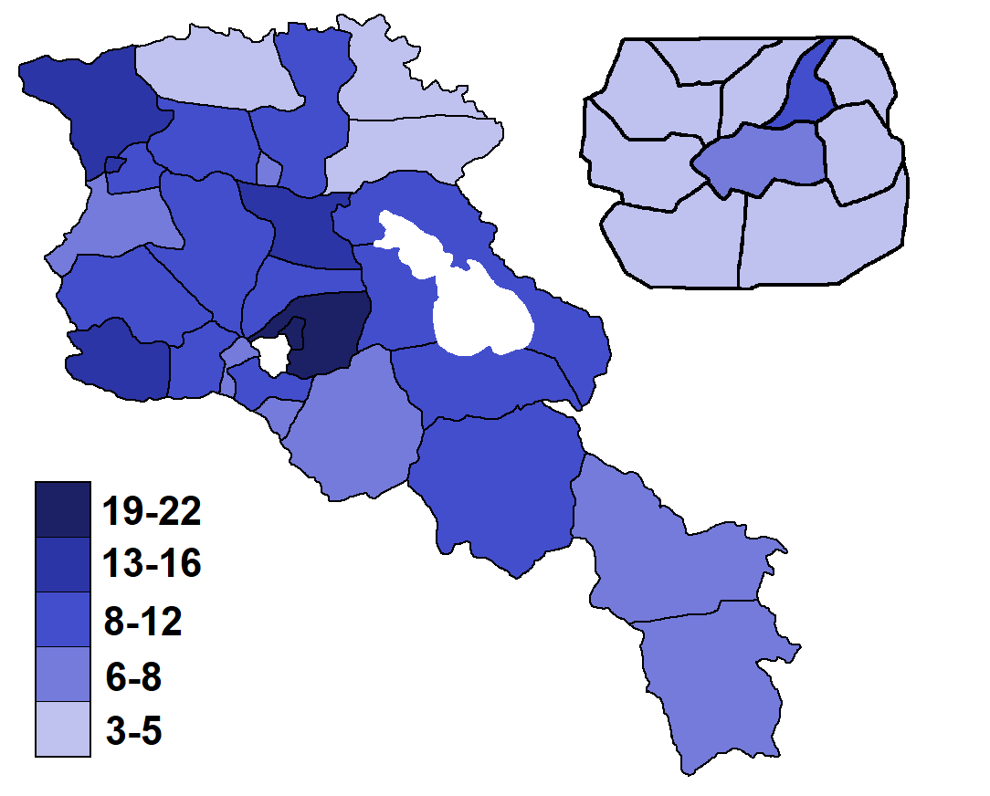 2018 Armenian parliamentary election — Prosperous Armenia